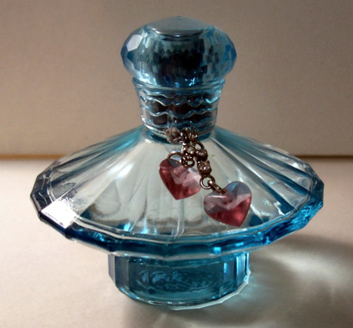 The photo is of parfume "Circus" by Elizabeth Arden and endorsed by Britney Spears.